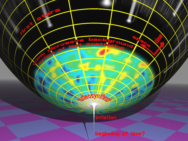 The Big Bang era of the universe, presented as a manifold in two dimensions (1-space and time); the shape is right (approximately), but it's not to scale.